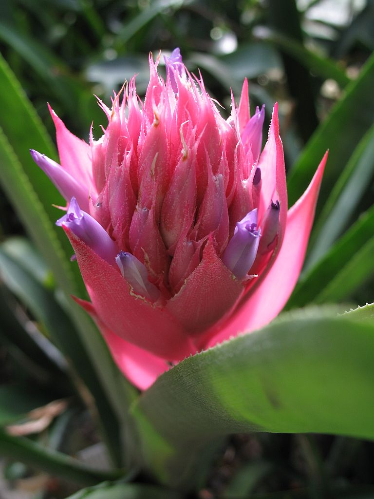 Ronnbergia allenii in cultivation at the Botanical Garden of Heidelberg, Germany.